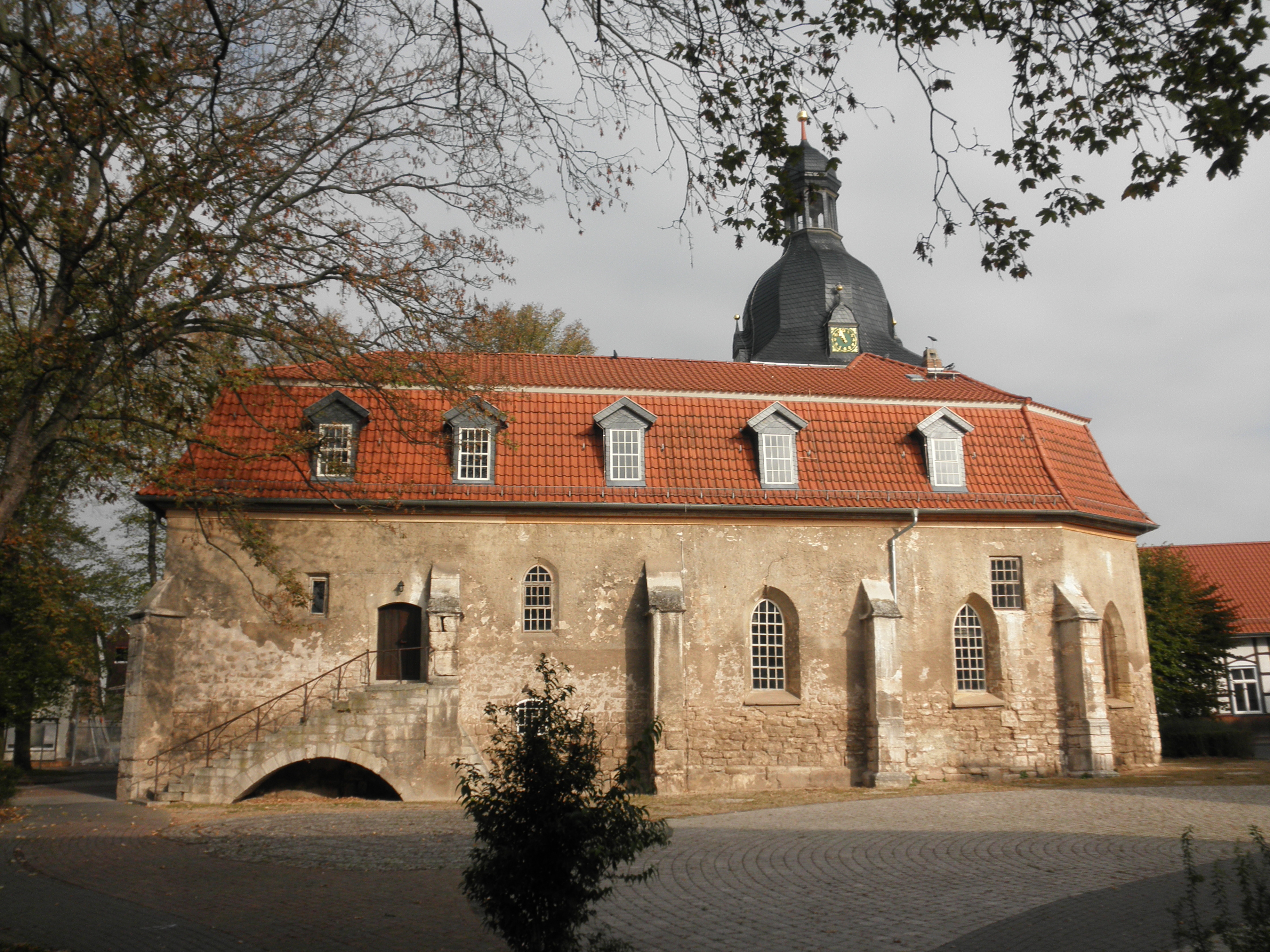 Church in Bollstedt in Thuringia